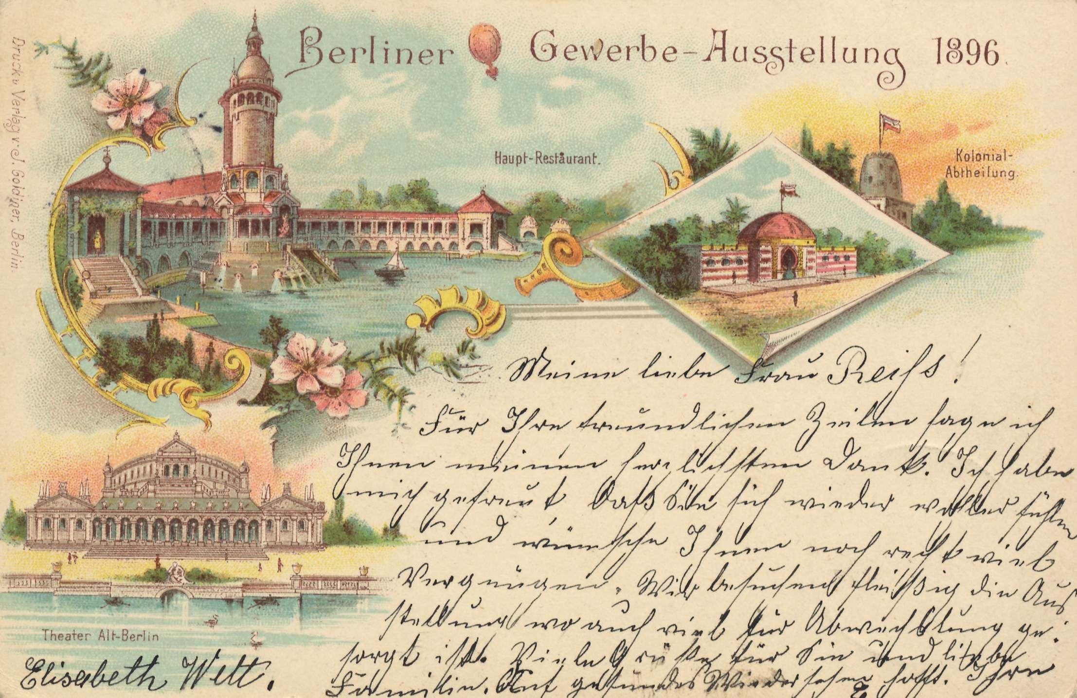 old picture postcard of Berlin industrial exhibition 1896 in Treptower Park - view of main restaurant with water tower, colonial exhibition and theater Alt-Berlin